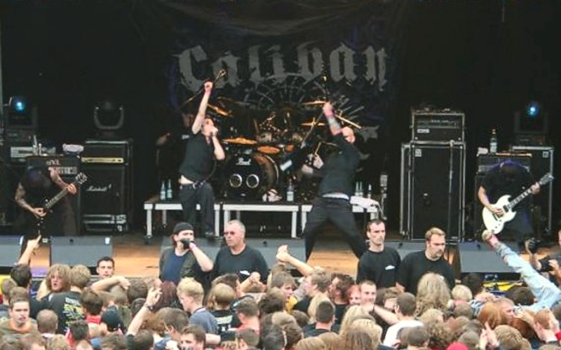 Caliban @ „Rock am Deich“ (Germany)